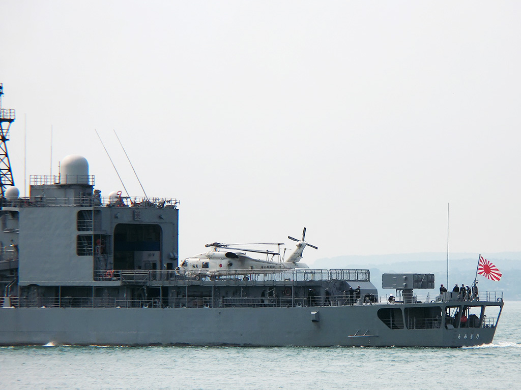 The hangar deck of the Japanese Asagiri-class destroyer JDS Umigiri (DD-158) photographed at Portsmouth, UK, on the 28 of July 2008 by Brian Burnell. Image uploaded by me User:George.Hutchinson from a photograph taken by and supplied by Brian Burnell. Wikipedia editors are reminded that the copyright remains with the photographer, and that the terms of the Creative Commons licence; that allow editors to reuse this image apply to Wikipedia editors also, as they do to other re-users of this image. Breaches of the licence terms are not only unlawful, but are also antisocial, in that breaches discourage photographers from making their images freely available to everyone without payment. Wikipedia re-users are also reminded of the license terms that derivatives of this image should not imply that the adaptation is endorsed or approved by the author or copyright holder. Neither should derivatives be presented as the creation of the author or copyright holder, while clearly stating that the adaptation is a derivative of the original. Attribution online should be in this format Brian Burnell. On the printed page, a simpler form is acceptable - example: "Image: Brian Burnell". Non-Wikipedia users are requested to advise Brian Burnell of its use other than on Wikipedia.